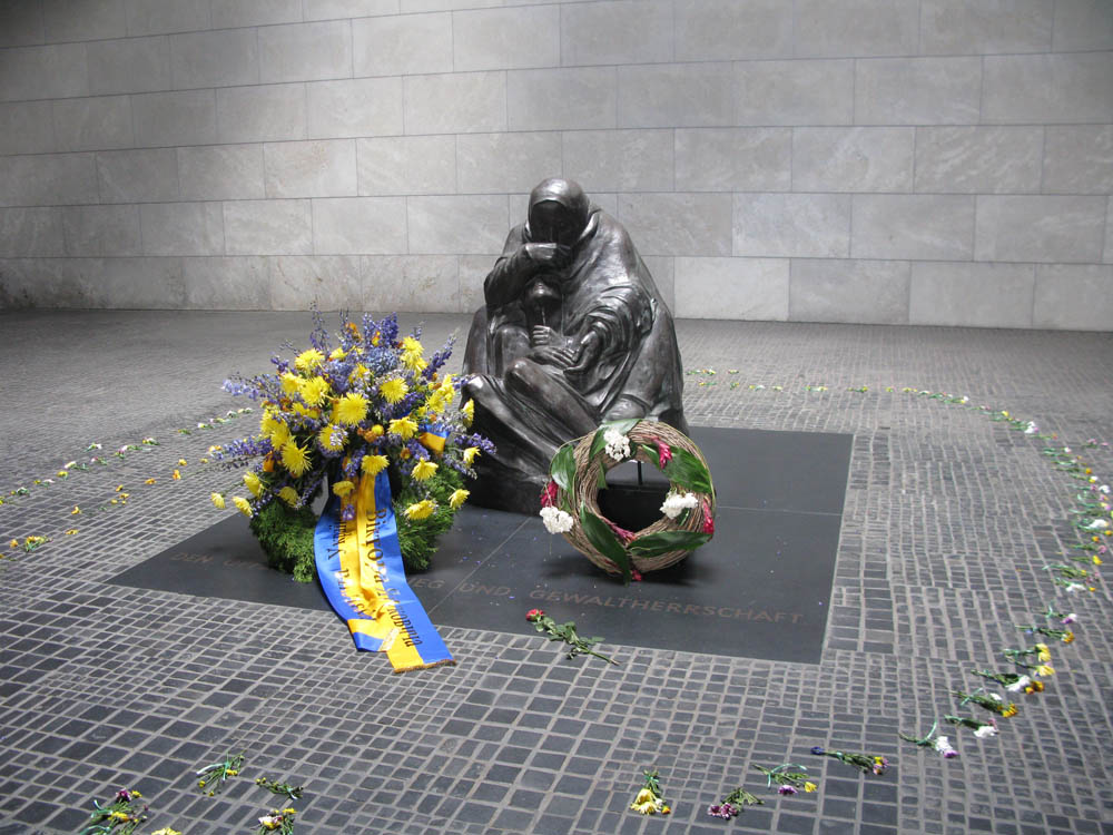 Neue Wache